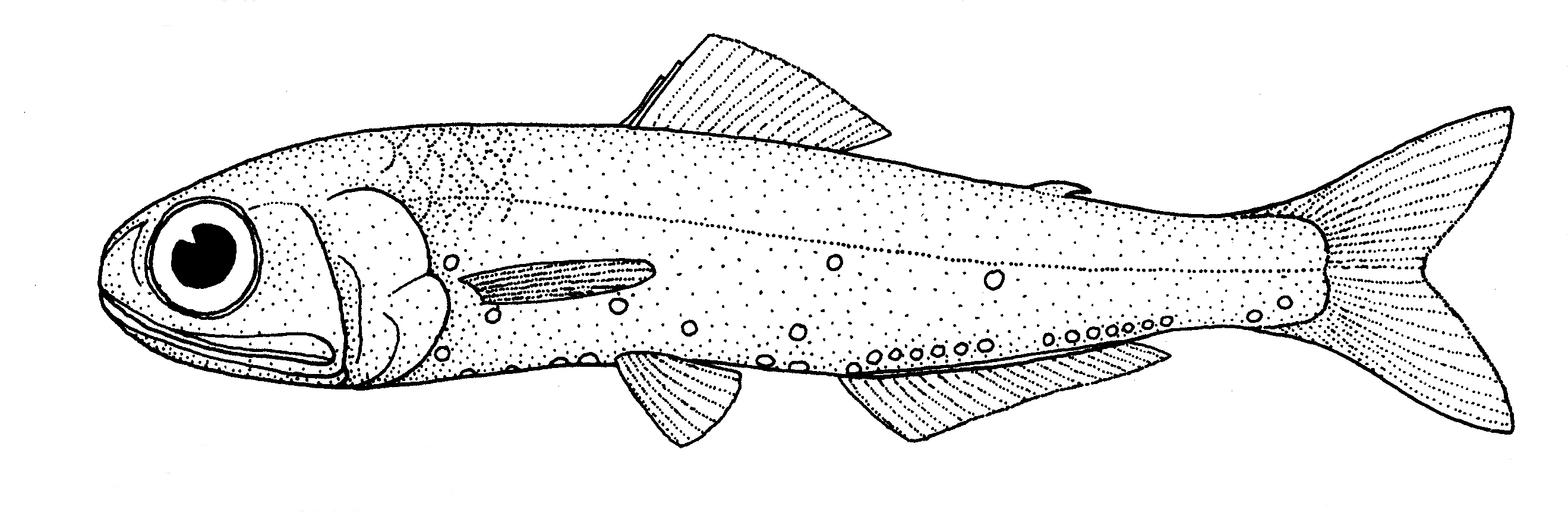 Symbolophorus barnardi (no common name)